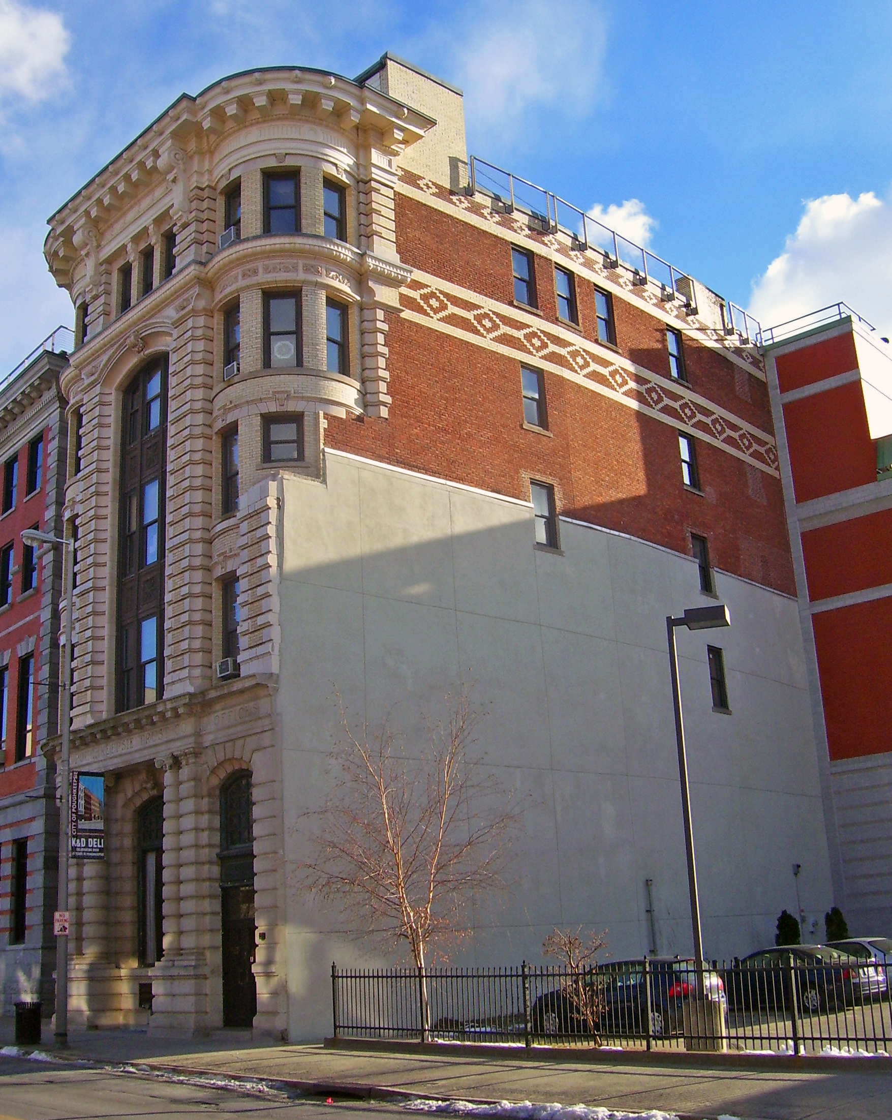 Poughkeepsie Trust Company building in downtown Poughkeepsie, NY, USA, now used as offices for the Dutchess County district attorneys.